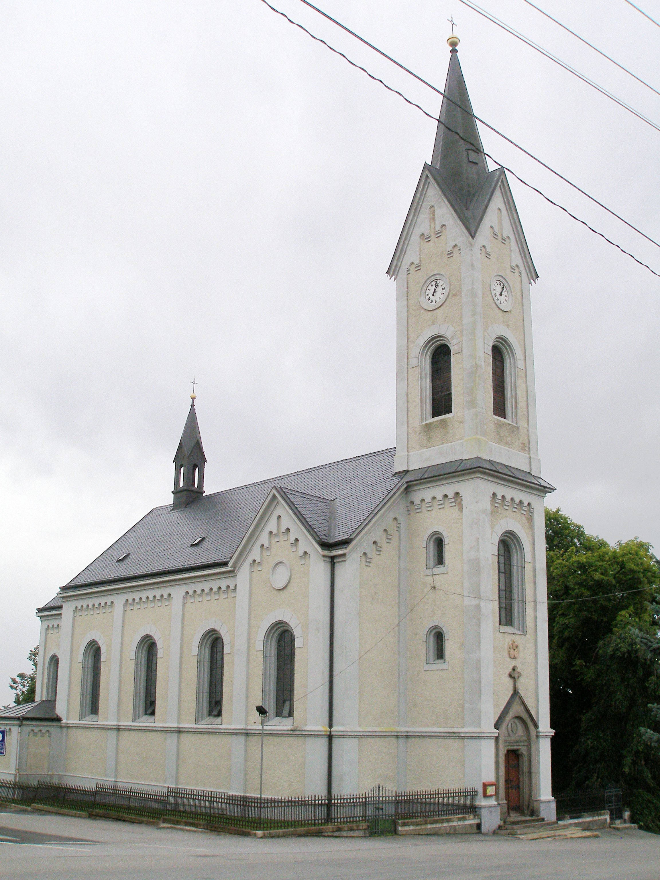 The Hohn the Baptist Church in Velká Chyška